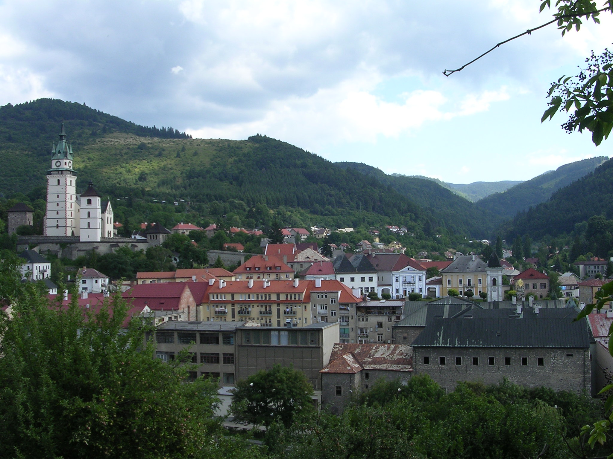 Kremnica - view from Kalvaria's slope